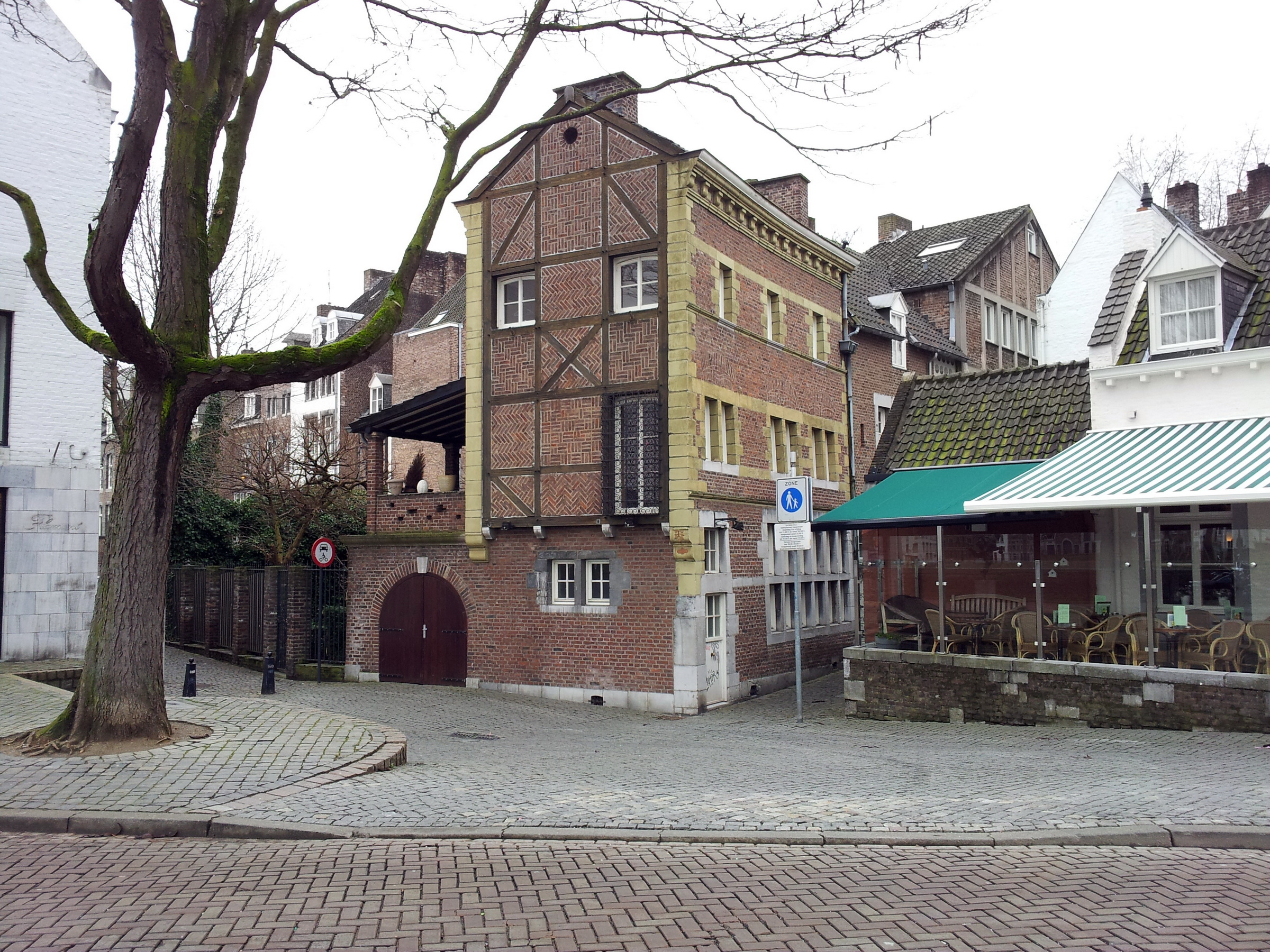 Maastricht, the Netherlands. View of Vissersmaas and Eikelstraat